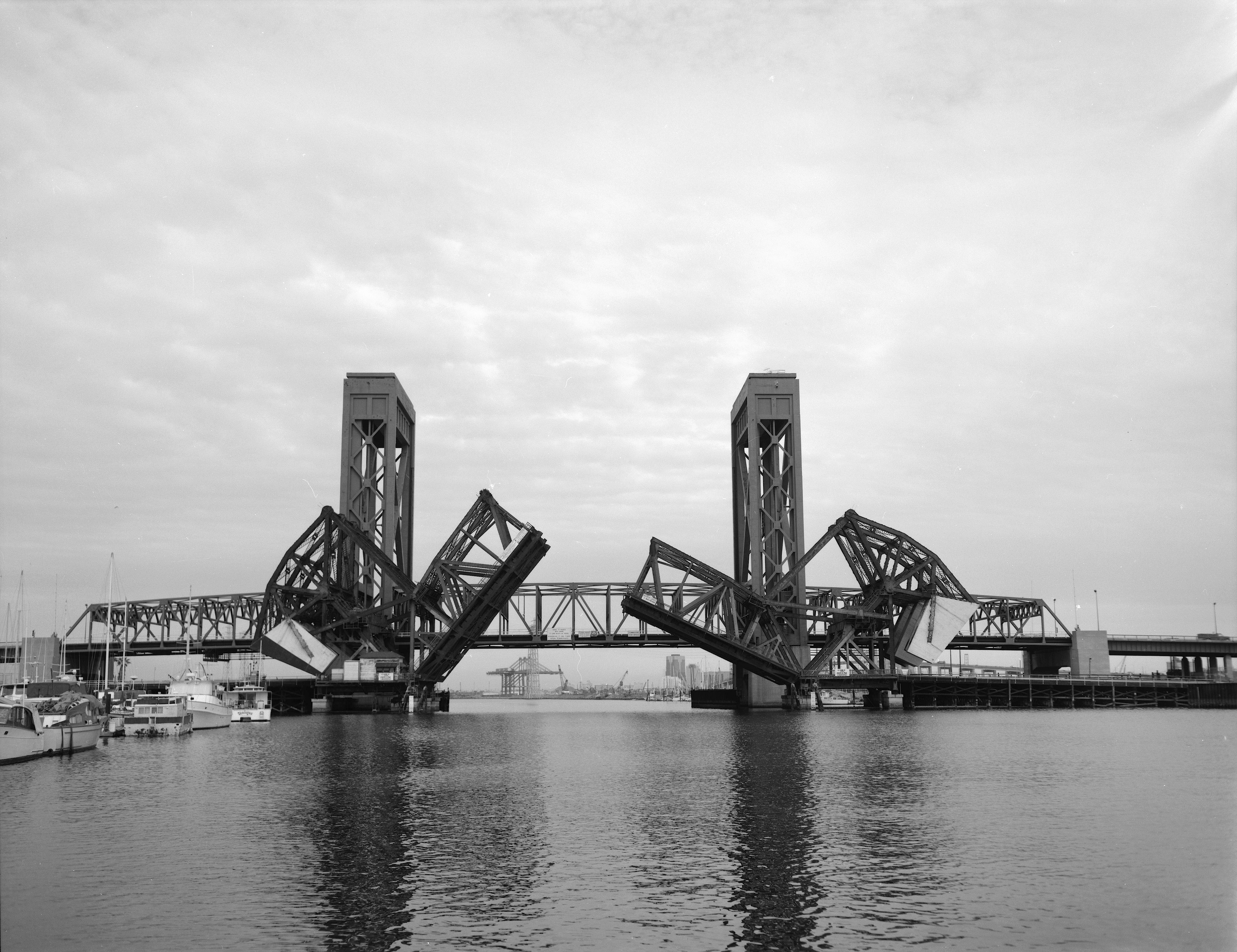 View of the Henry Ford Bridge in the half-closed position from Cerritos Channel facing northeast, in Los Angeles County, California.